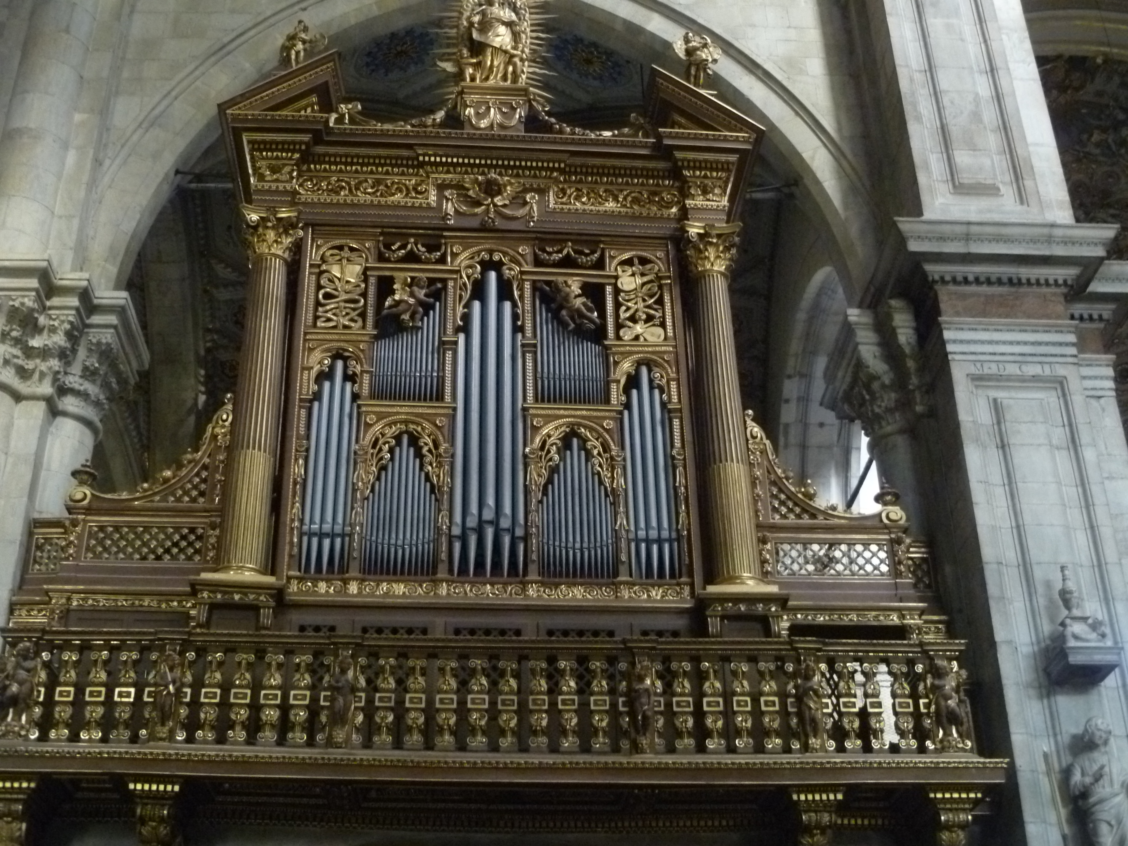 One of the two large organs in Baroque style (early 17th century) in the Como Duomo; Como, Italy